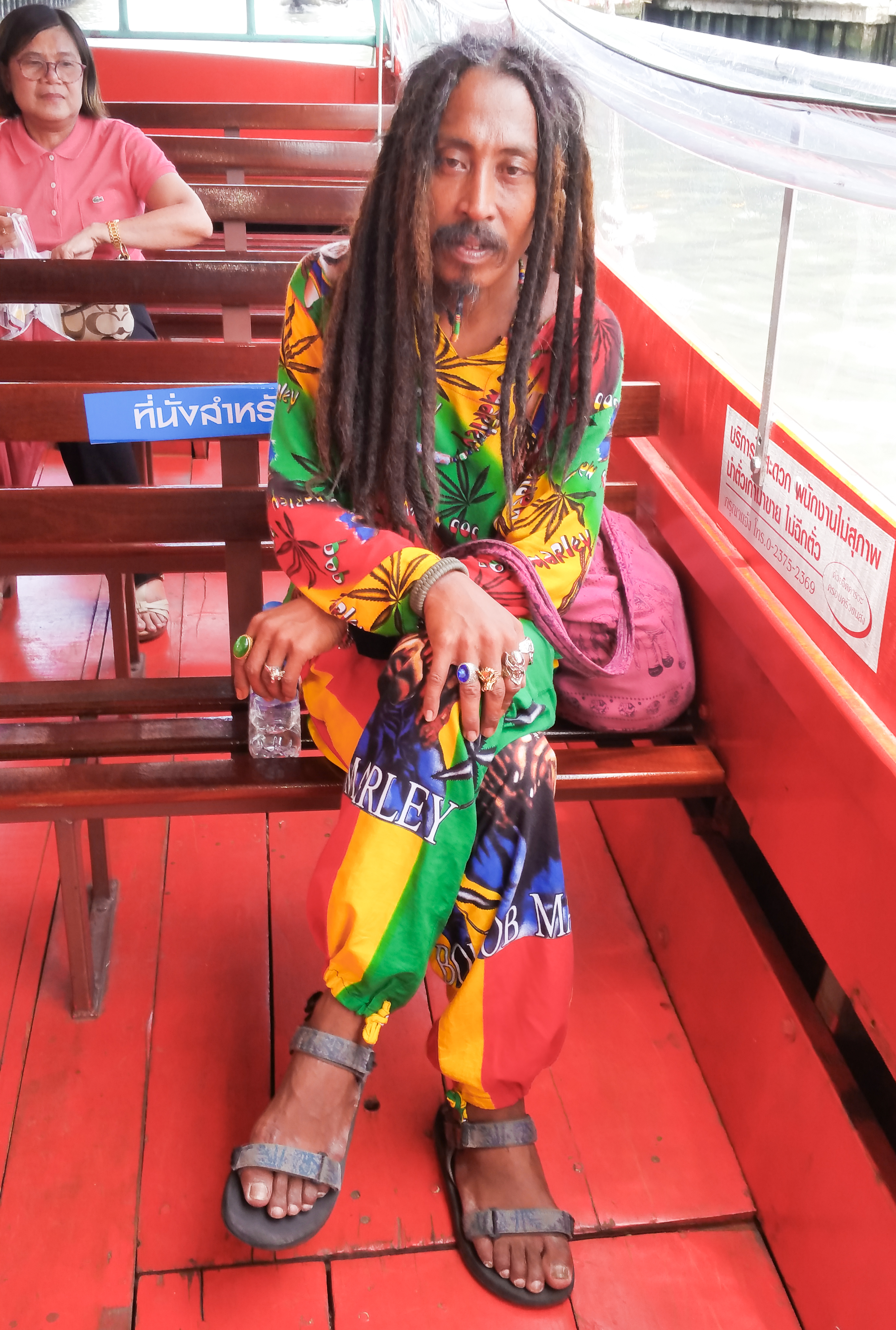 A colourfully dressed Rastafarian man travelling on the Saen Saeb canal in Bangkok, Thailand.